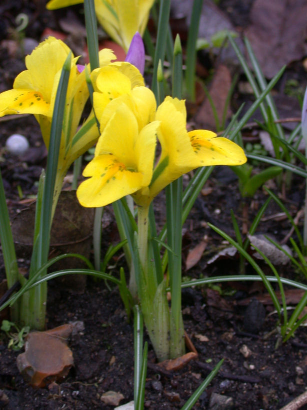 Iris danfordiae in garden in Cambridge UK, February 2004.